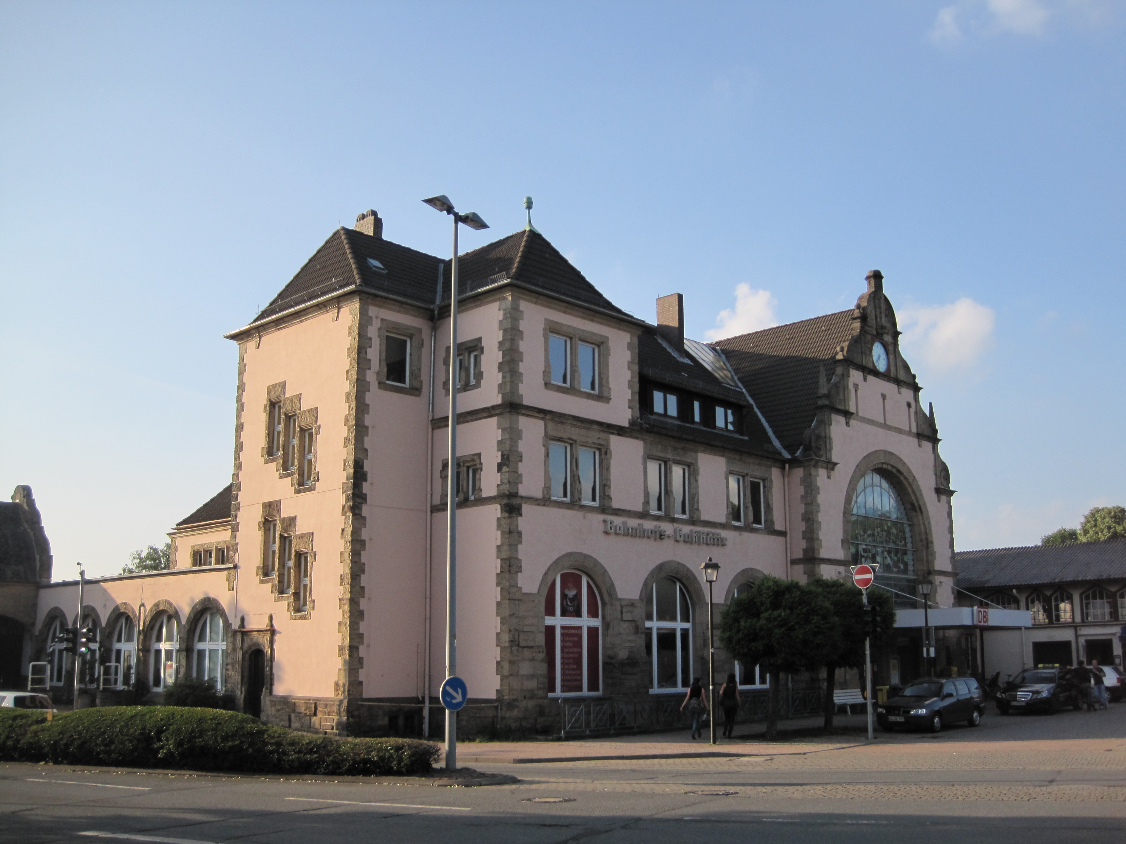 Train station, Bad Harzburg, Germany check usage Address Dr.-Heinrich-Jasper-Straße 2 38667 Bad Harzburg Germany Date26 June 2011SourceOwn work. (→ weitere 1,611 Bilder von mir in der Galerie)AuthorStefan FlöperPermission (Reusing this file) cc-by-sa-3.0, gfdl 1.2+